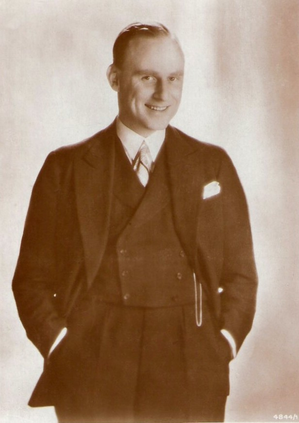 Portrait of German actor Gerd Briese (1897–1957) by Alexander Binder, Berlin.